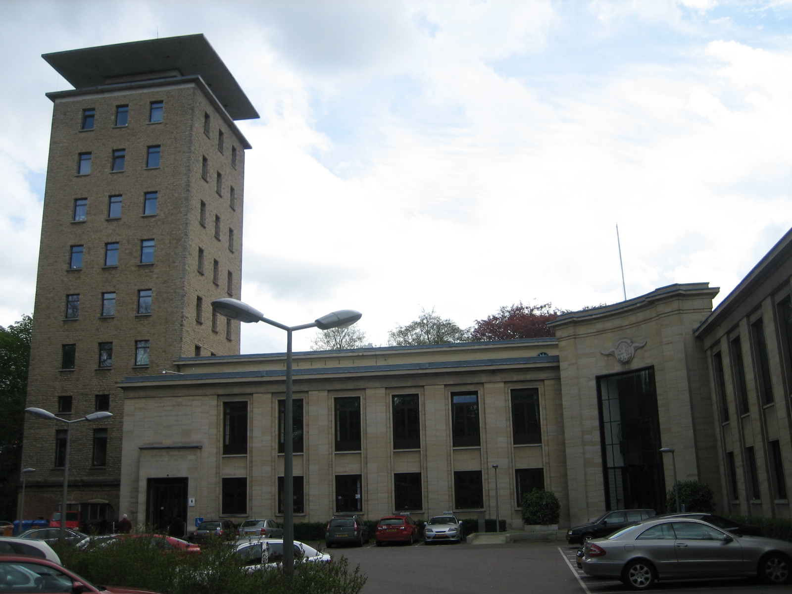 Villa Louvigny in Luxembourg City